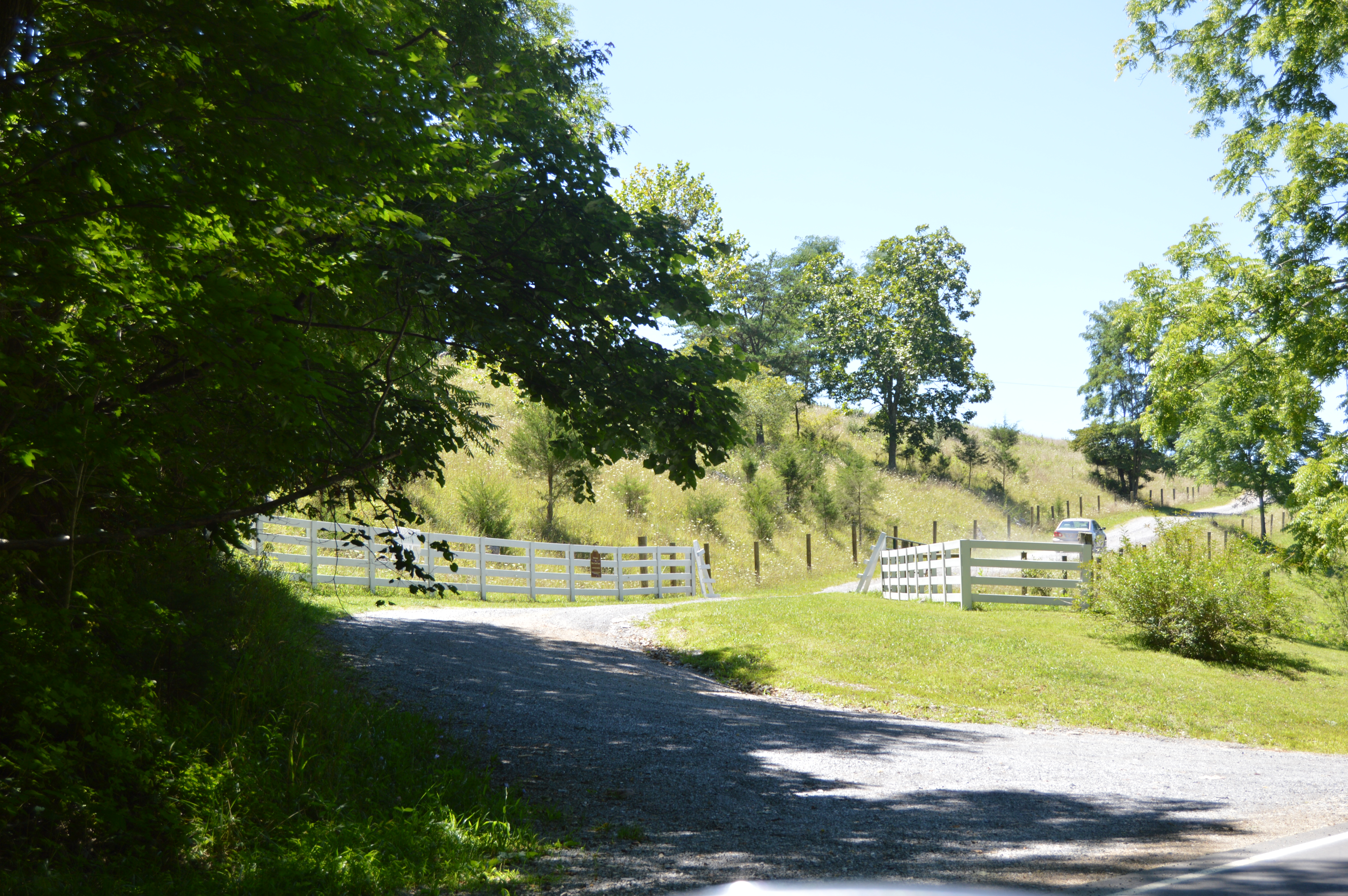 Driveway to Doe Creek Farm, located on Doe Creek Road east of Pembroke in Giles County, Virginia, United States. The estate is listed on the National Register of Historic Places.